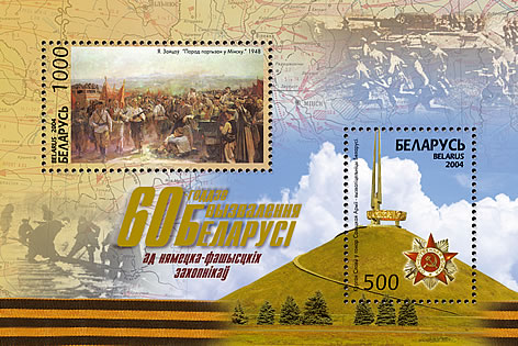 Stamp of Belarus